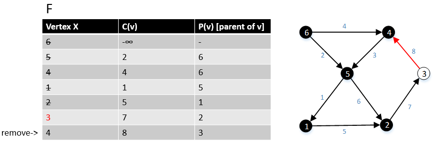 MBSA-GT-example-5